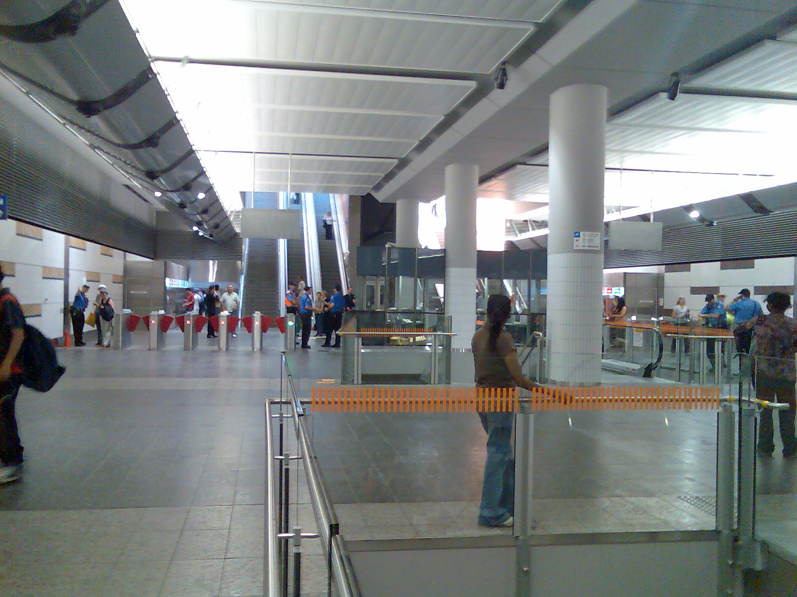 Central Level of the underground platforms of the Perth Railway Station.